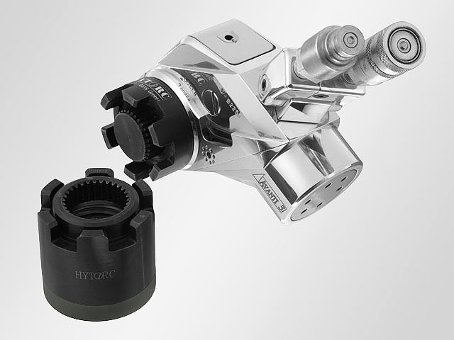 Avanti with Hytorc Clamp drive for torsion free mounting